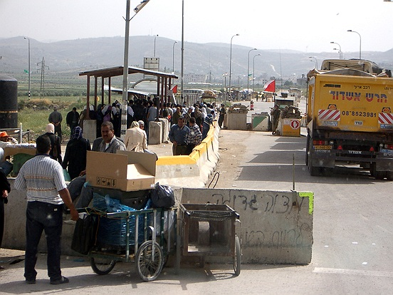 The source of this image is the photographer himself, The Reverend Dr. Stephen Sizer, who is the sole owner this photograph and agrees to publish it under the Creative Commons Attribution 3.0 License. which states that the owner agrees to share the work under the following conditions: You must attribute the photograph to him, in the manner specified by the licensor (but not in any way that suggests that he endorses you or your use of his image).